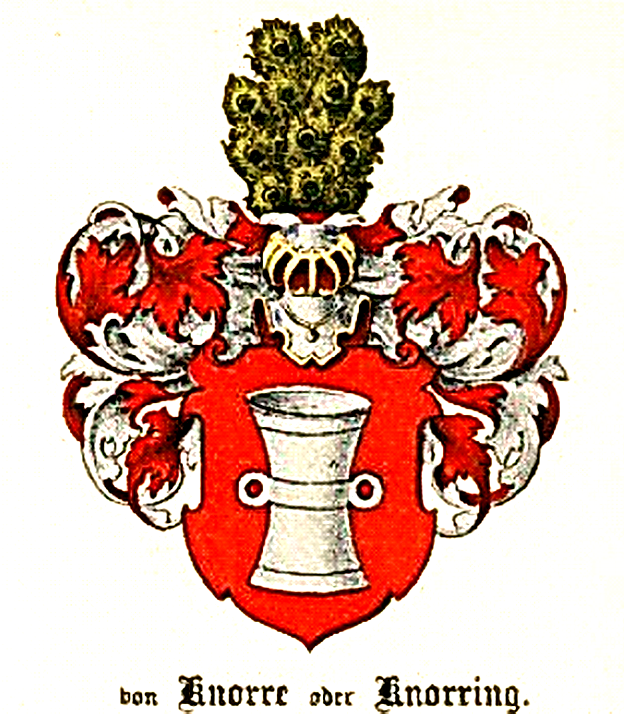 Coat of arms of Knorring family (Baltisches).